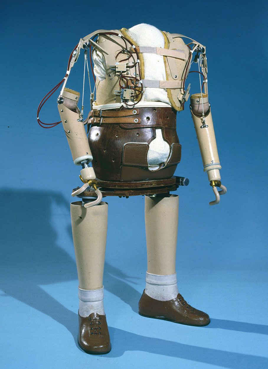 From the DHSS Limb Fitting Centre at Roehampton, London. During the 1960s, the drug thalidomide, formerly used as a sedative, was found to produce congenital deformities in children when taken by the mother during early pregnancy. Children were commonly born with the absence of the long bones of the arms, with the legs and feet often also being affected. The Limb Fitting Centre at Roehampton, London, creates and fits prosthetic limbs for children affected by thalidomide.